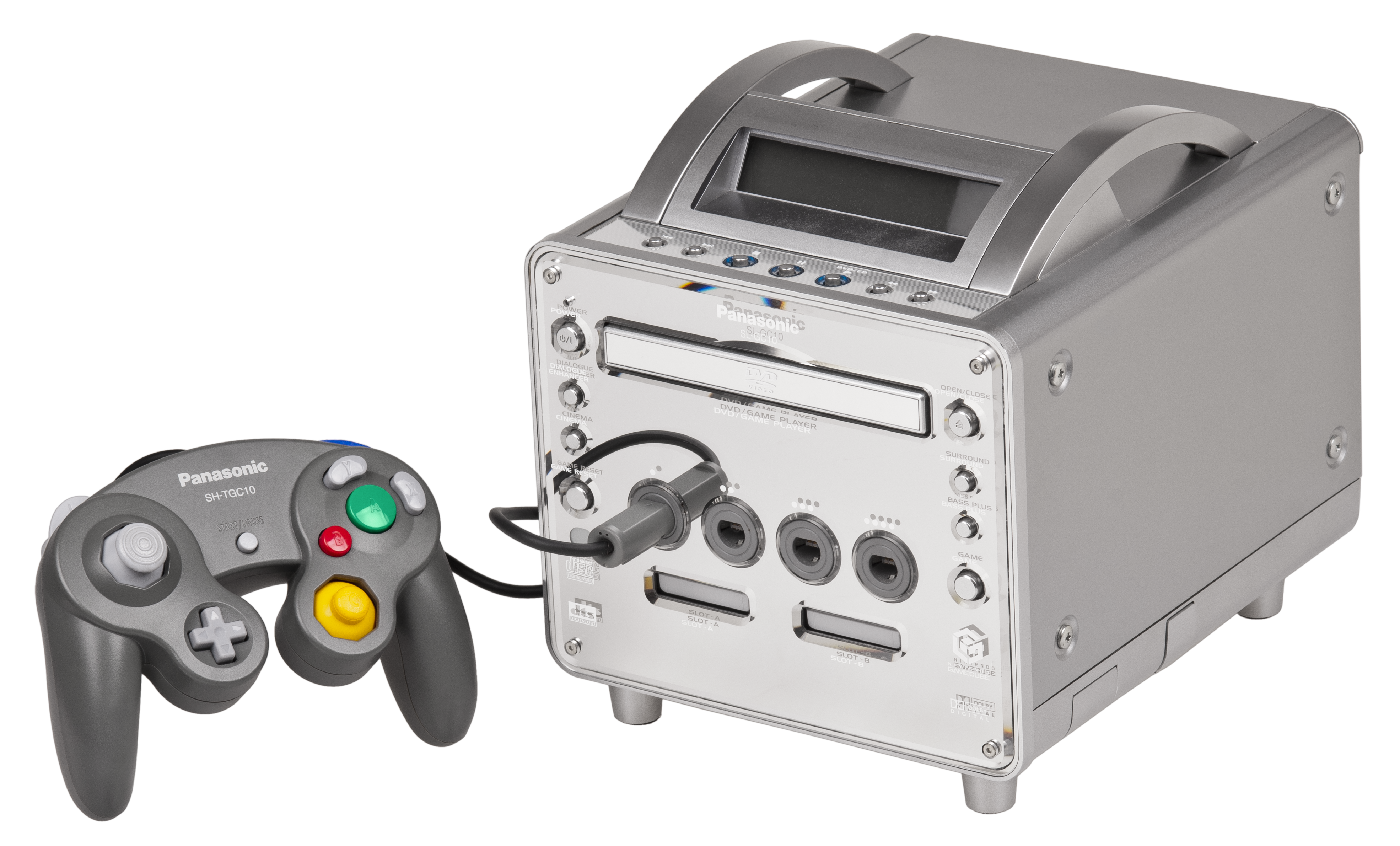 A Panasonic Q video game console. A limited edition and high-end GameCube that was released only in Japan and could play DVDs.